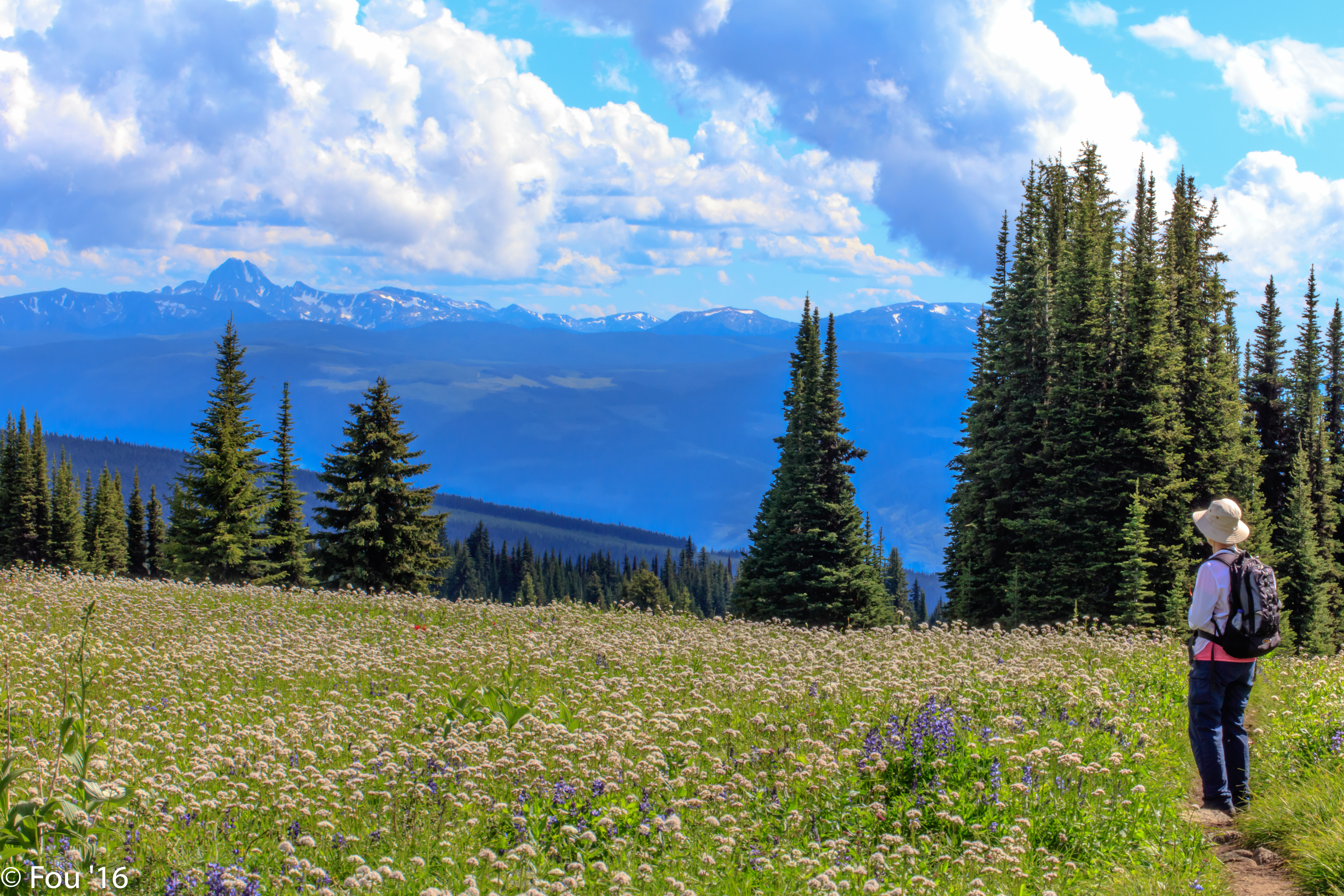 2nd hike of the season into Trophy Meadows in Wells Gray Park...looking S toward the highest peak in the area, DunnPeak at 2636m...